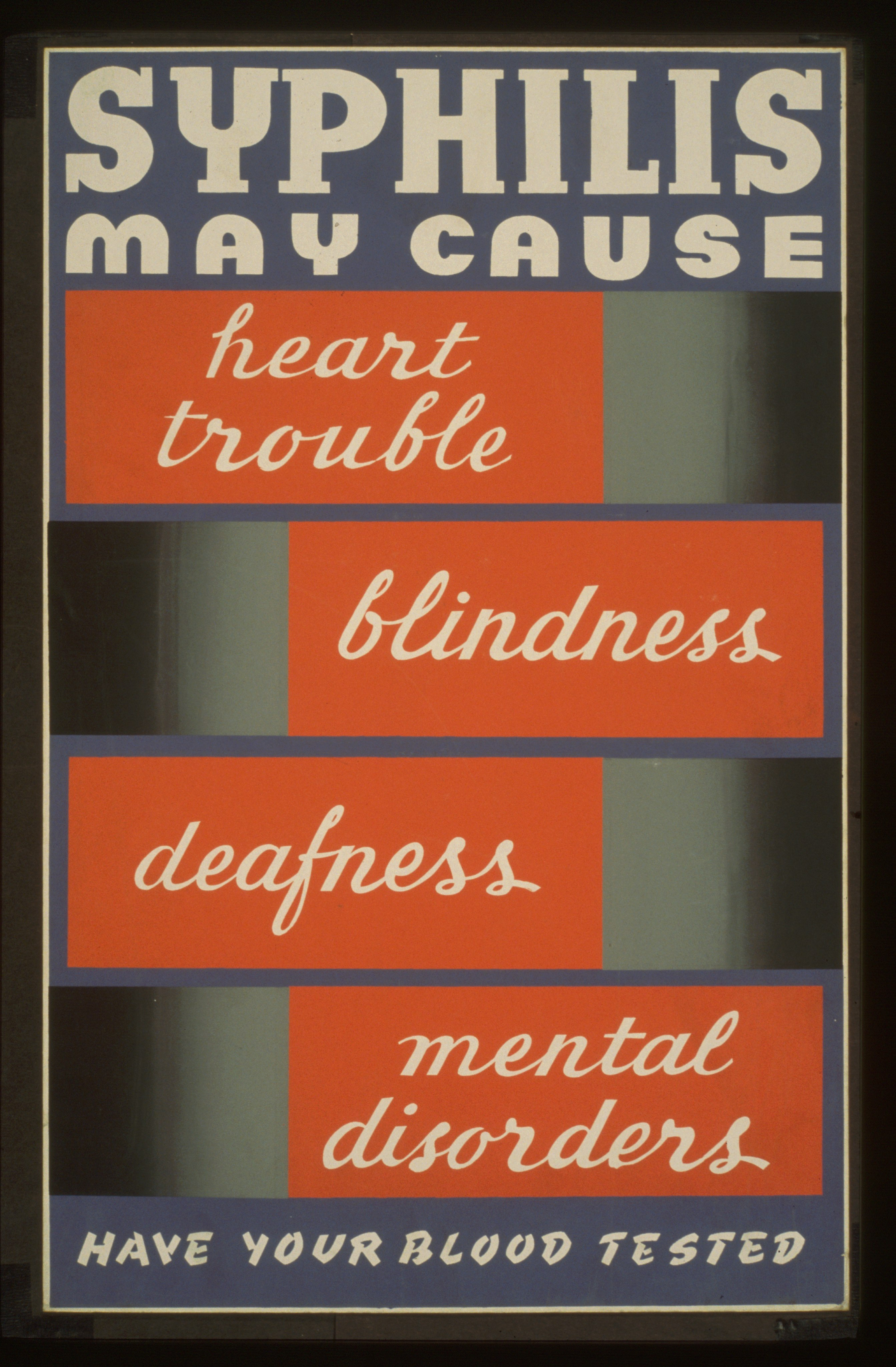 Title: Syphilis may cause heart trouble, blindness, deafness, mental disorders Abstract: Poster promoting blood tests for syphilis. Physical description: 1 print on board (poster) : silkscreen, color. Notes: Work Projects Administration Poster Collection (Library of Congress).; Date stamped on verso: May 14 1941.